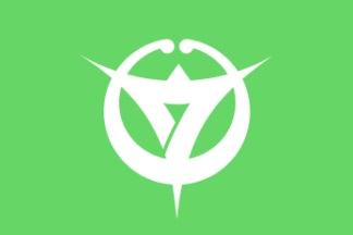 Flag of Uozu Toyama